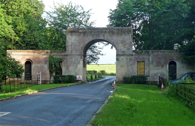 Gateway and lodges, Tyringham